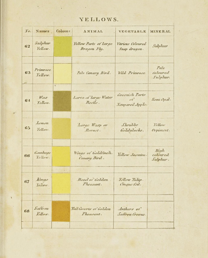 Werner's nomenclature of colours, page 39 Yellows